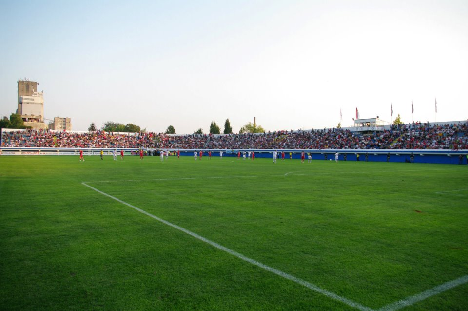 Hajduk stadium during the match Hajduk - Red Star, September 25th, 2011